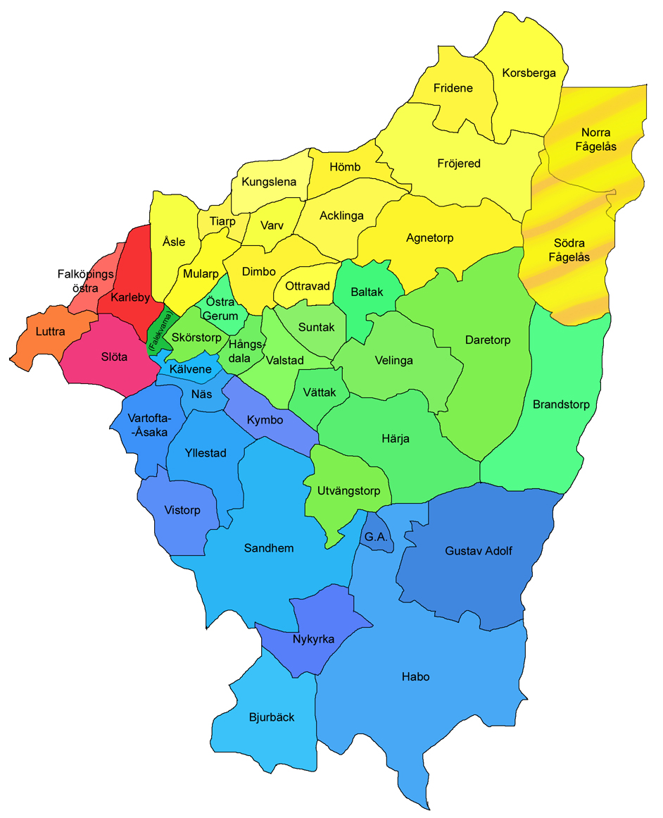 Map over parishes and farthings in Vartofta hundred, Västergötland, Sweden.